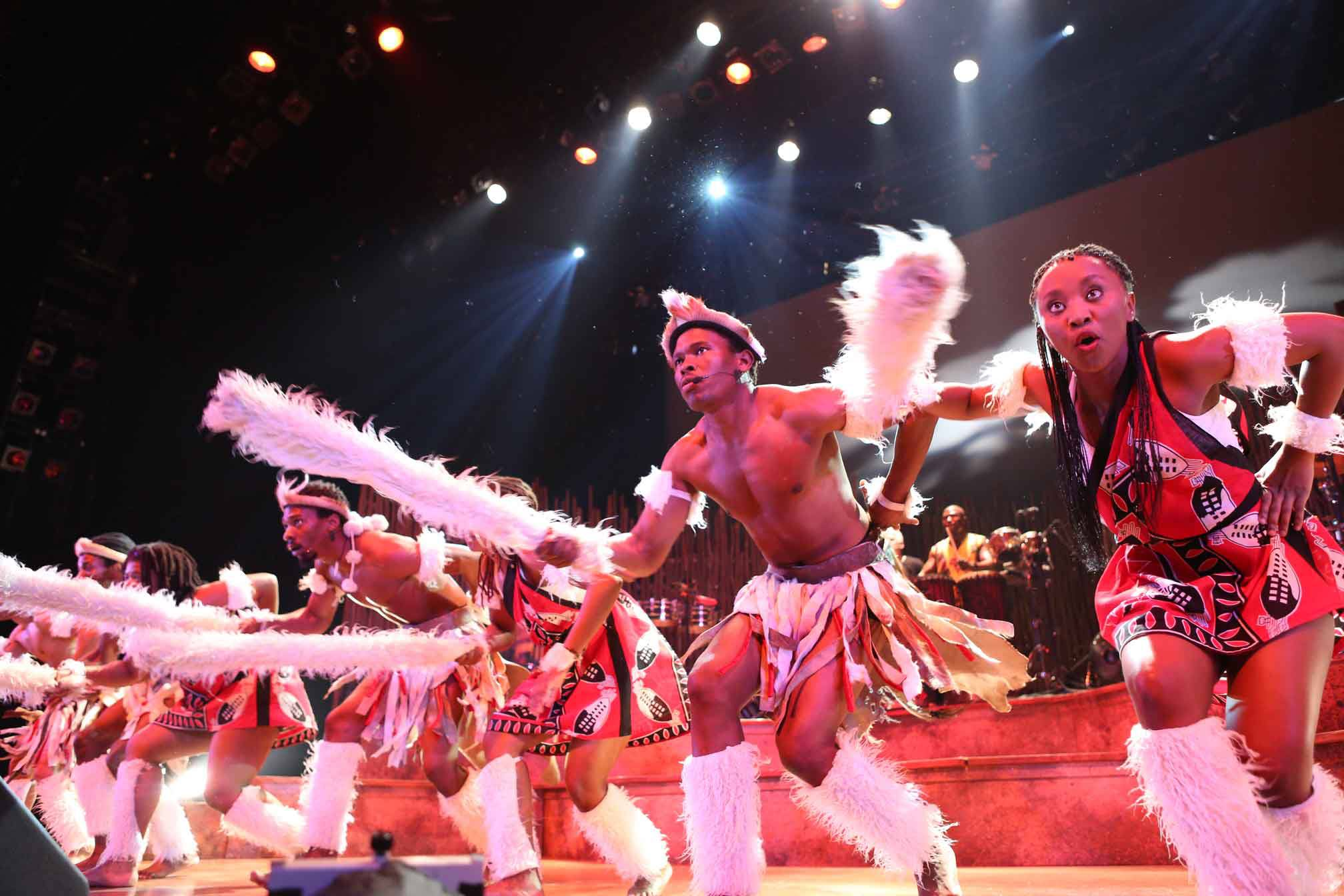 Drum Struck Zulu Performance